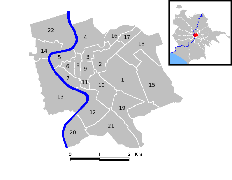 Rome Rioni with numbers.